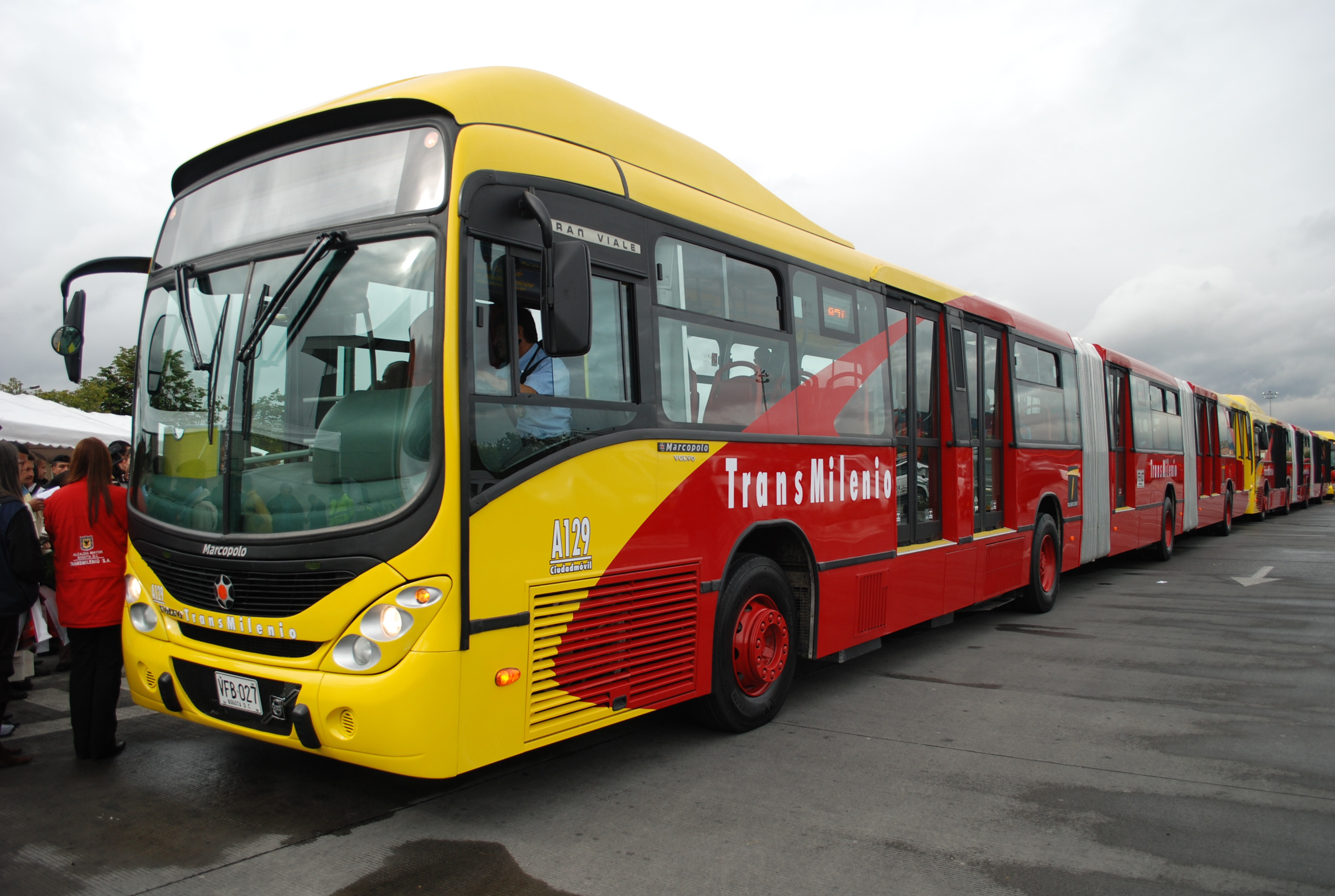 New Biarticulado in Transmilenio